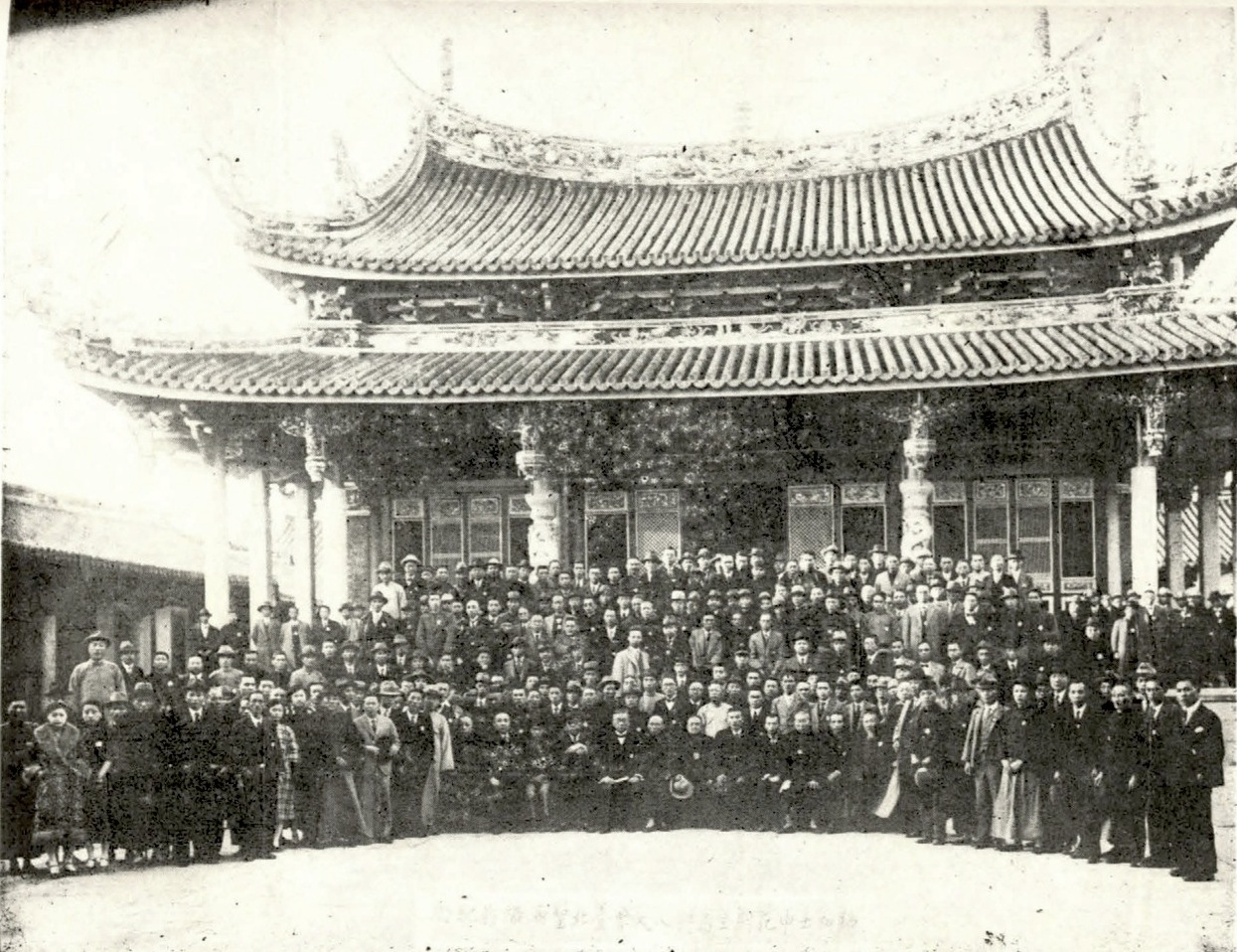 Formosan poets, Taihoku, 1932